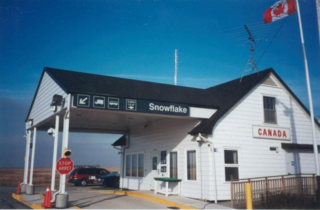 Canadian Border Inspection Station at Snowflake, Manitoba